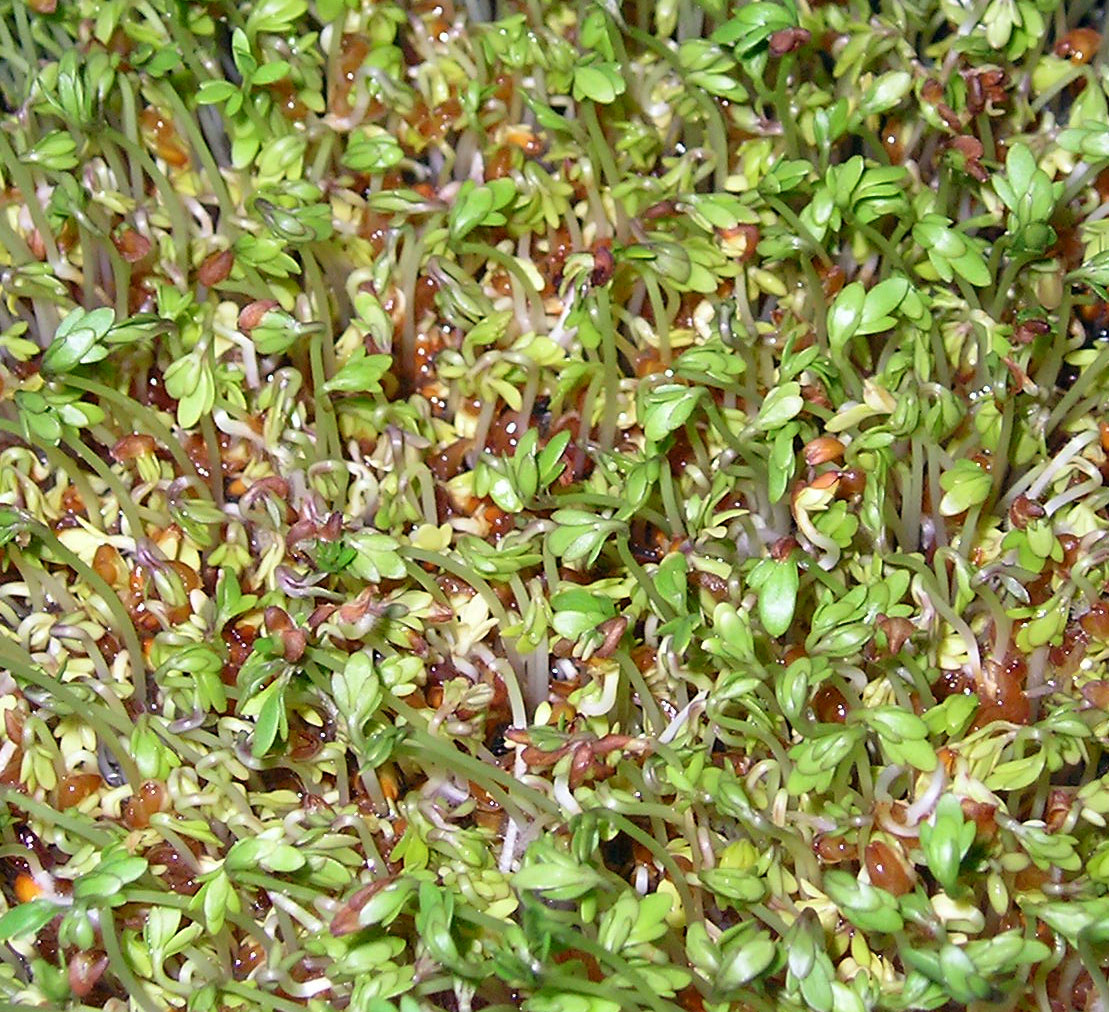 Garden cress